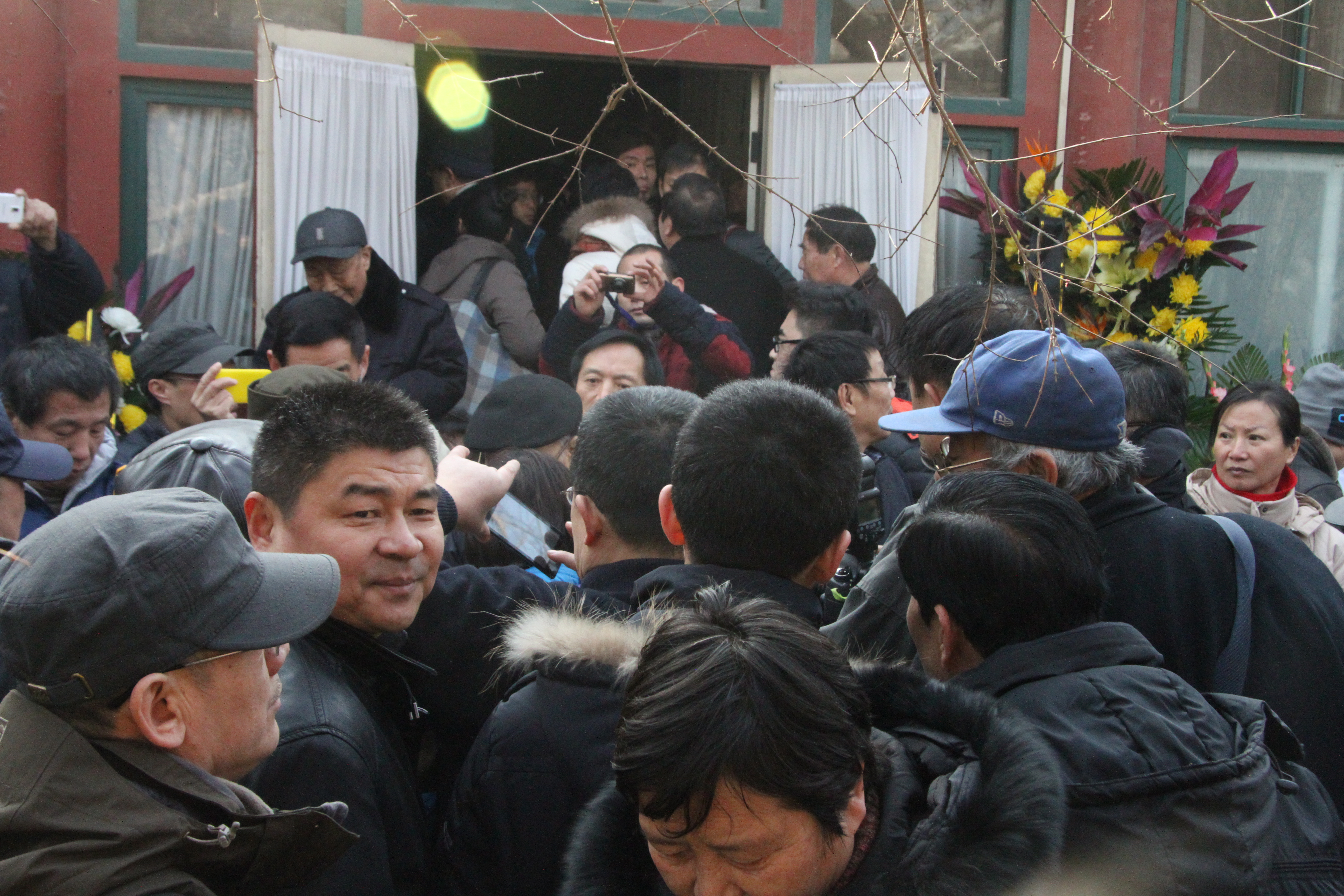 10th death anniversary of Zhao Ziyang